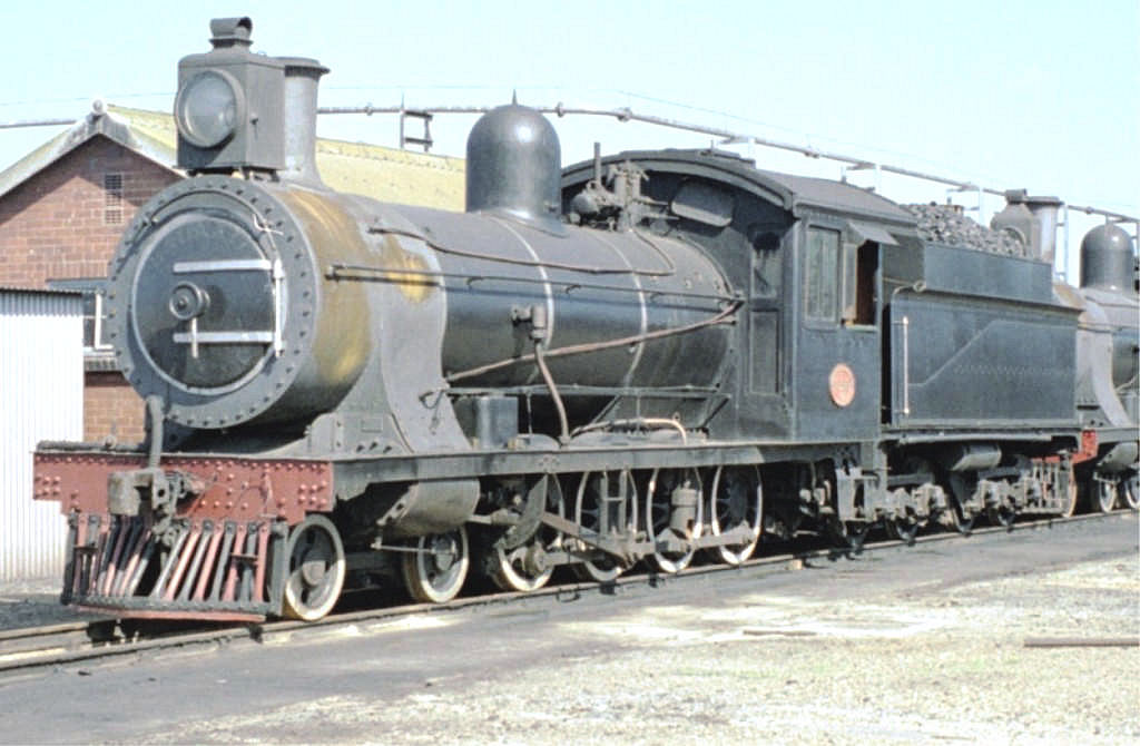 44 7B 4-8-0 No 1056 at Voorbaai 1997-SEP-04